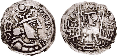 Coin of Bahram V, Sasanian king